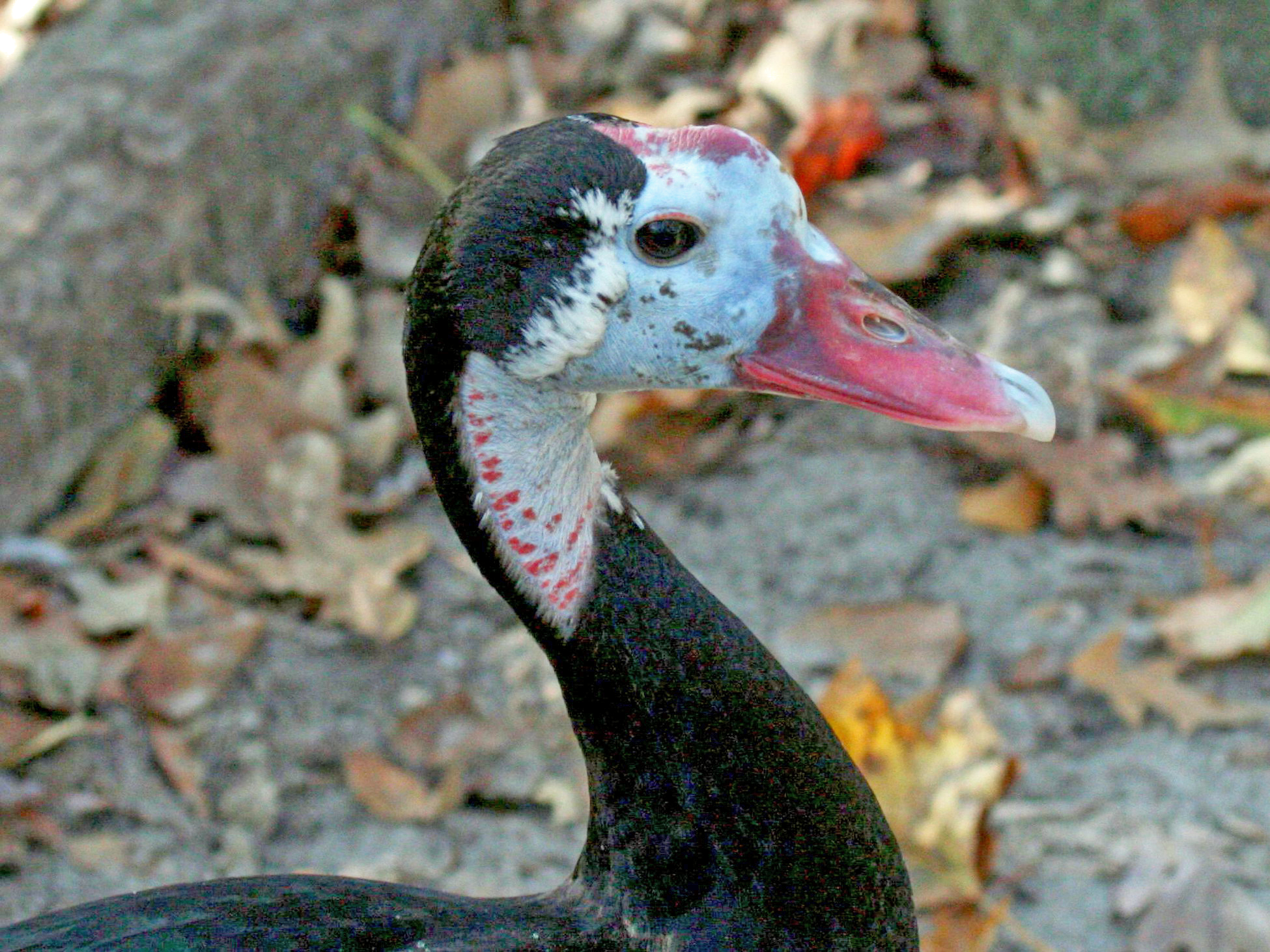 Spur-winged Goose (Plectropterus gambensis) at Sylvan Heights Waterfowl Park in Scotland Neck, North Carolina.